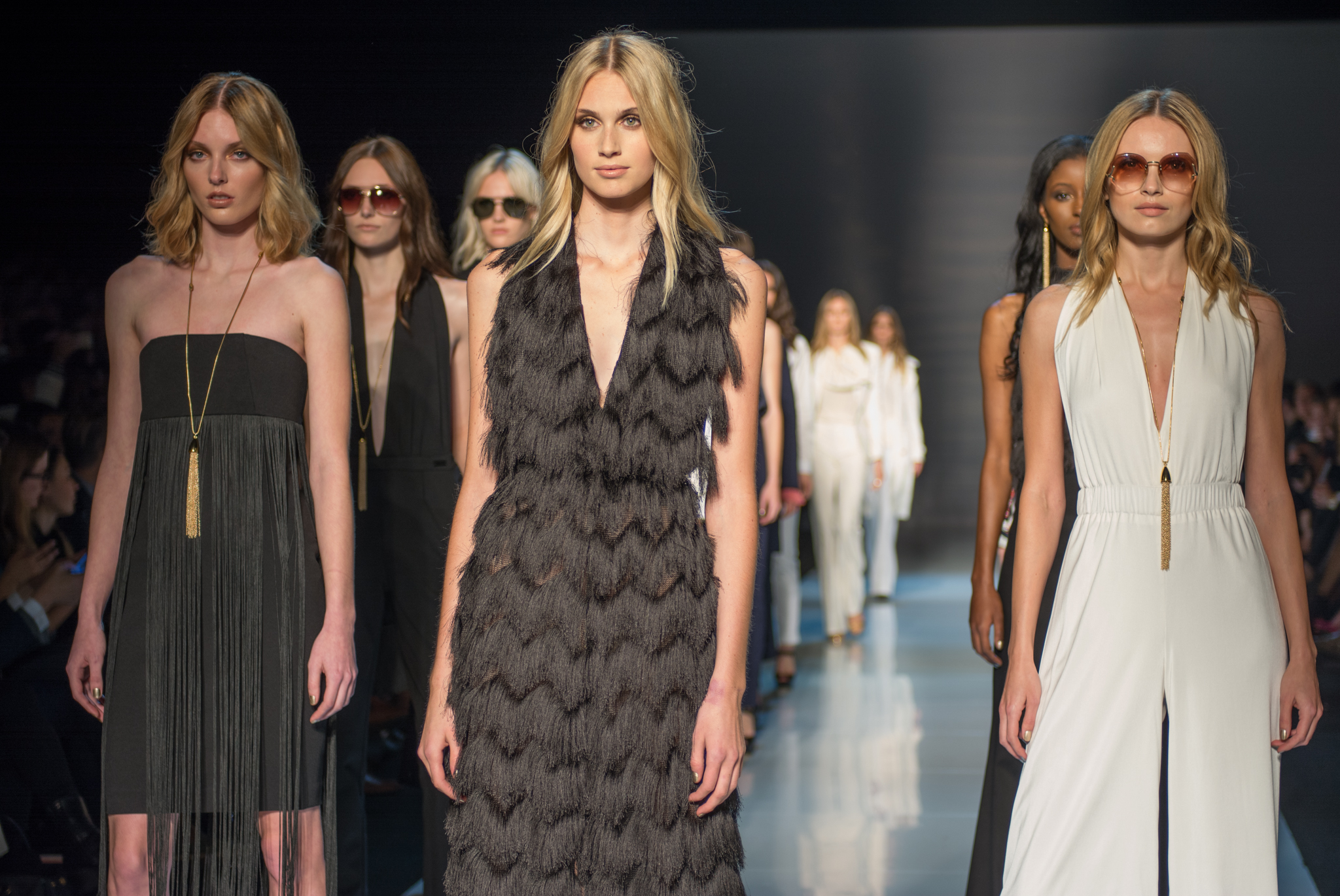 Models standing on stage for the Pink Tartan Spring 2015 fashion show during World MasterCard Fashion Week at David Pecaut Square in Toronto